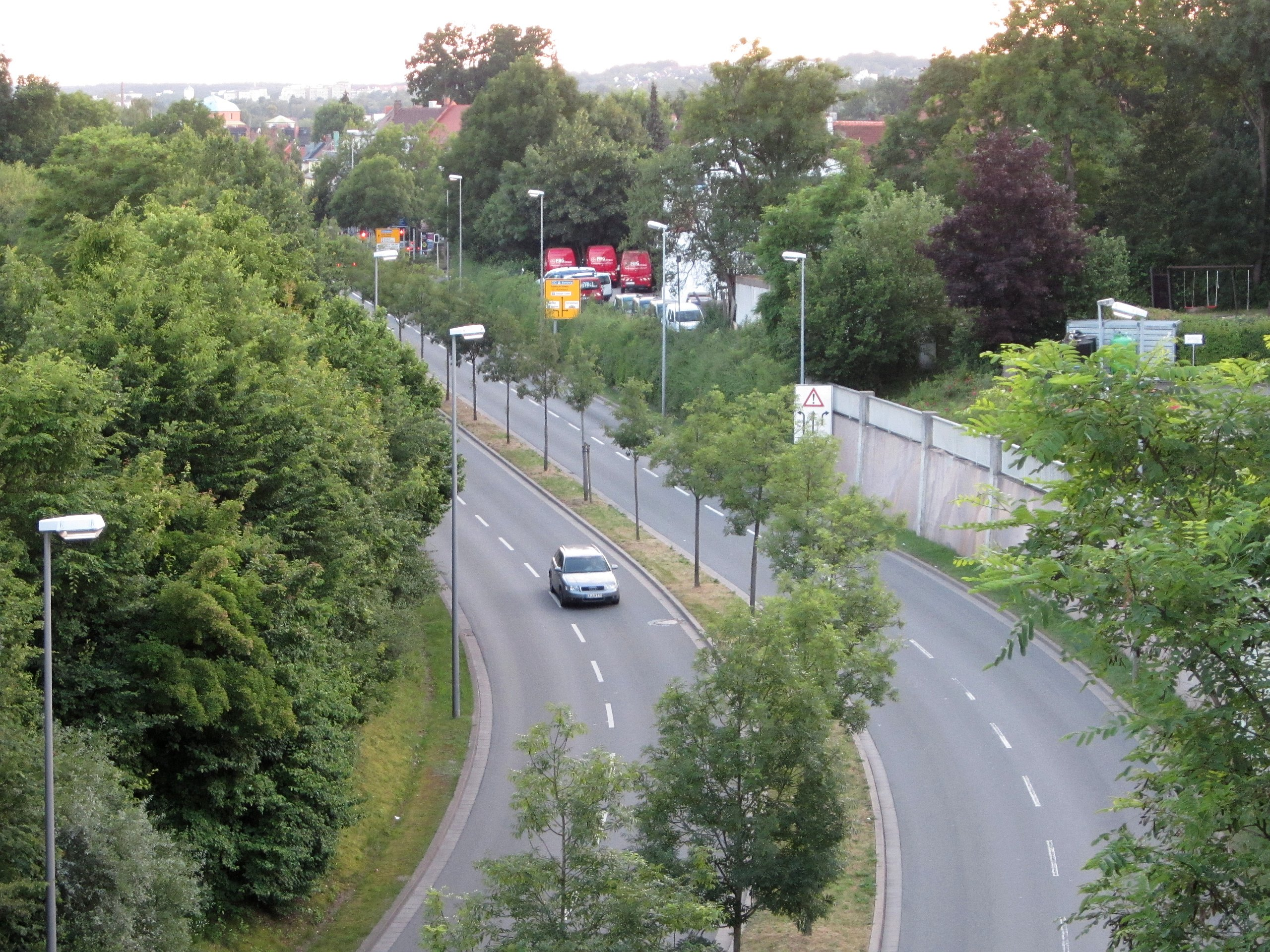 Hofer Straße in Bayreuth